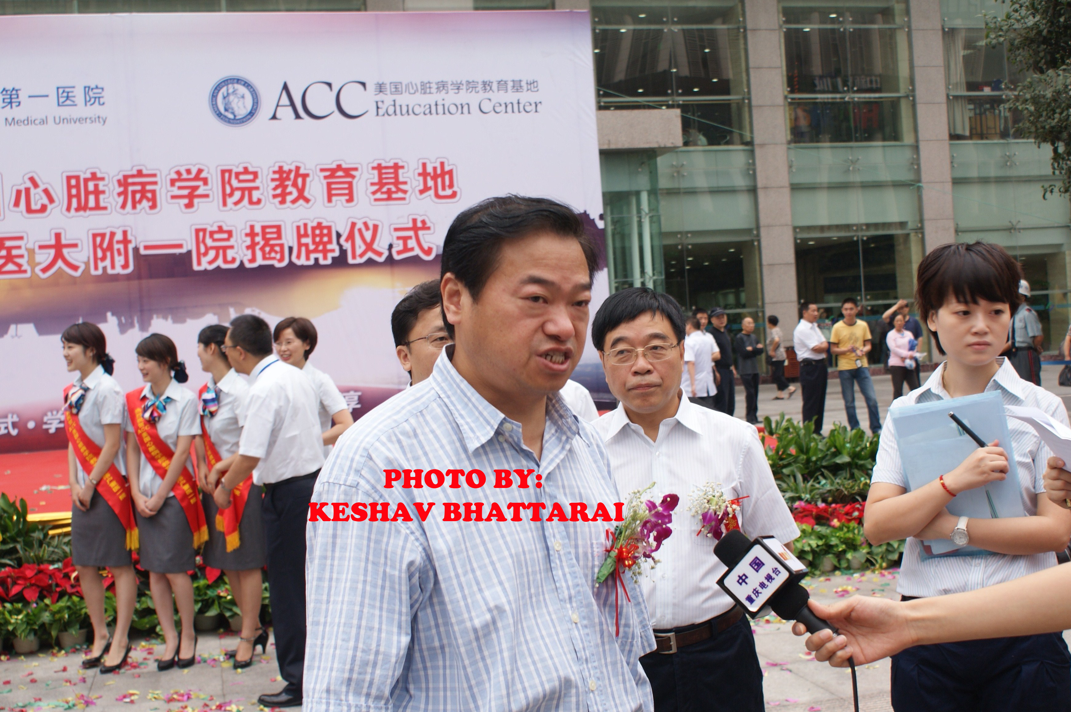 Prof. Lei Han